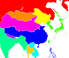 Map of Asia according to "Looking for an Epitaph" novel